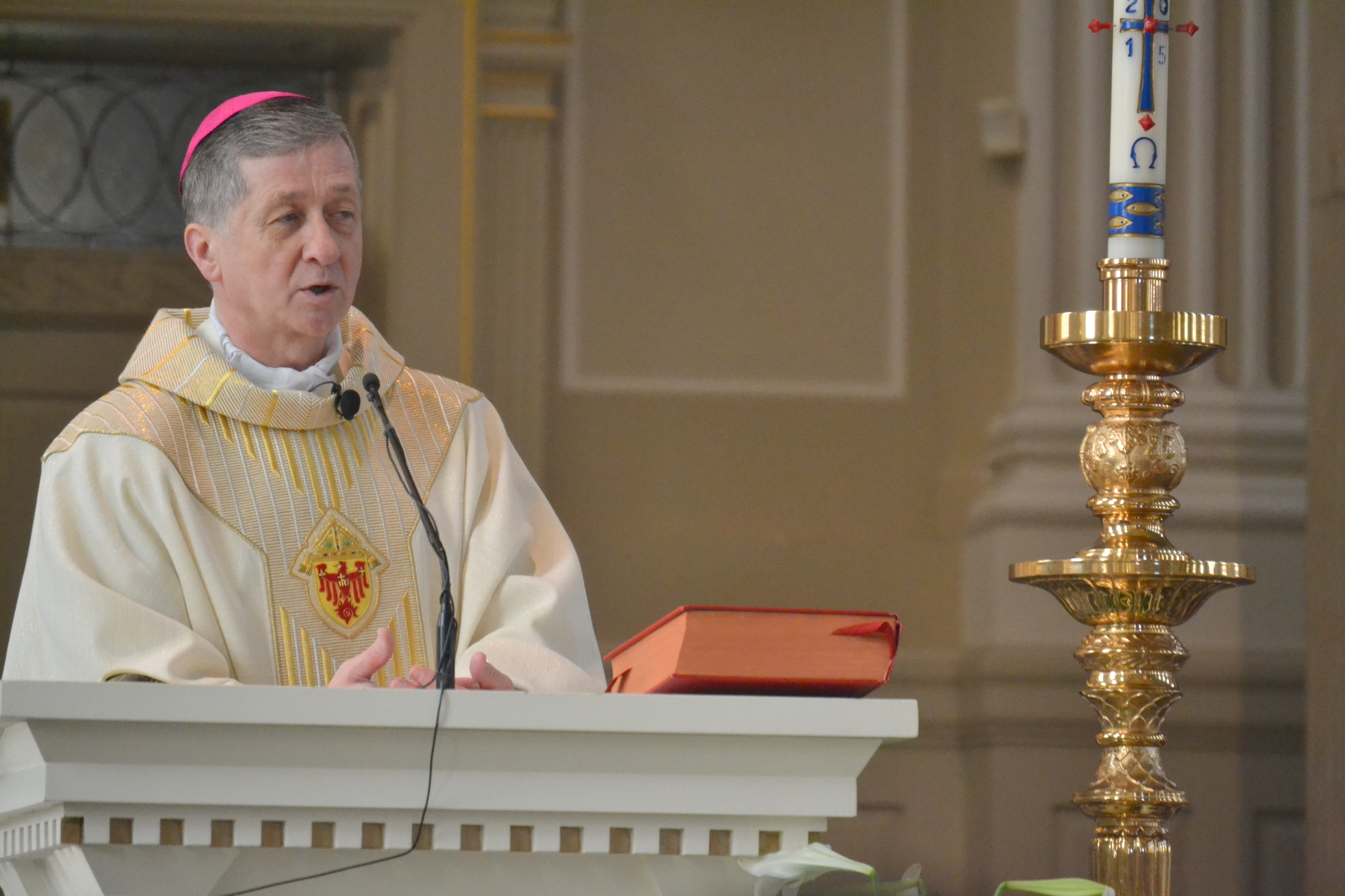 Archbishop Blase Joseph Cupich